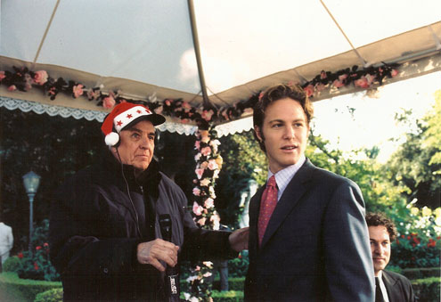 Jonny Blu and Garry Marshall on the set of The Princess Diaries 2: Royal Engagement in 2004 starring Anne Hathaway and Julie Andrews in in Pasadena, Calfornia